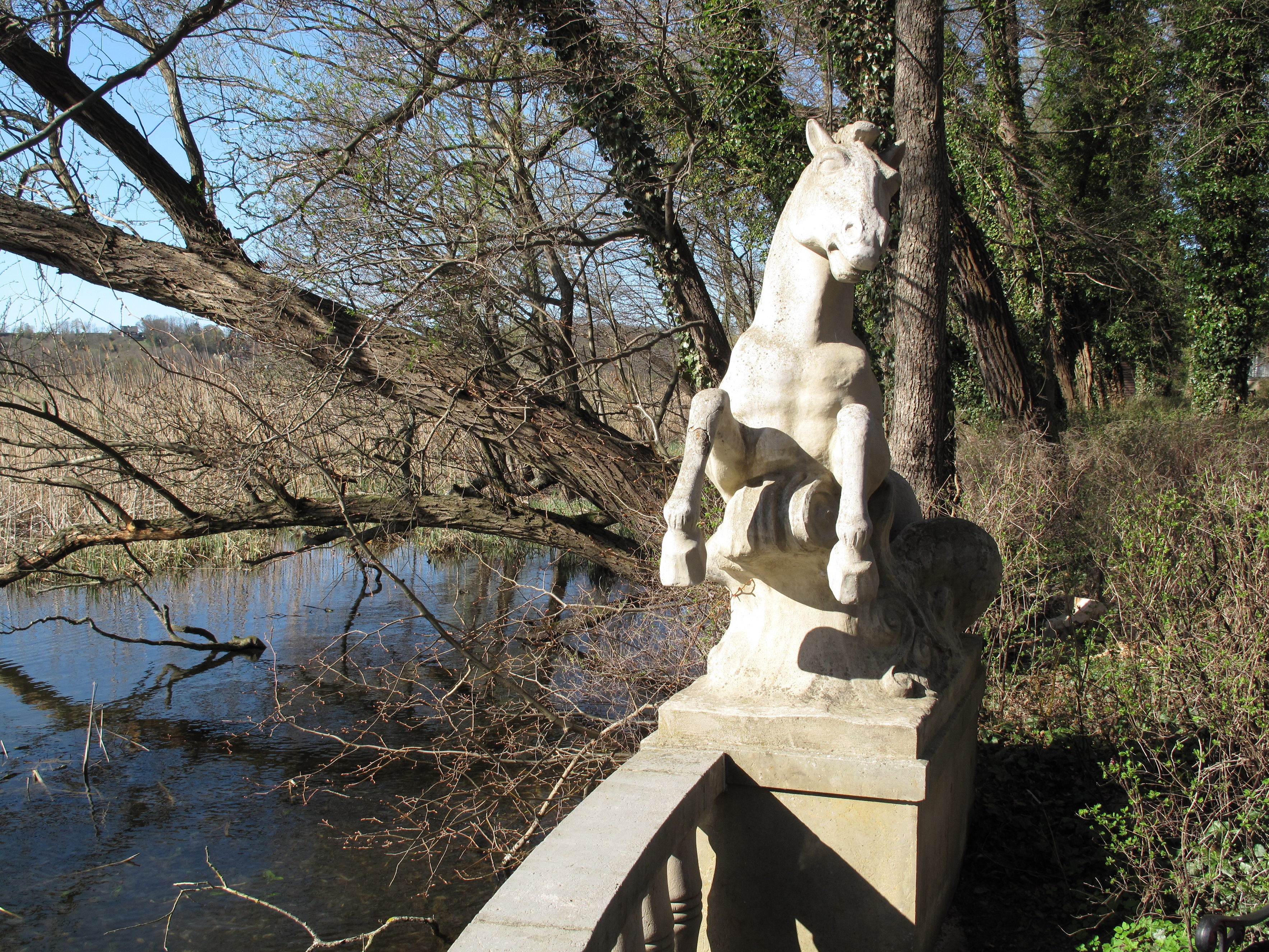 Listed Brecht-Weigel-Haus at the eastern shore of the Schermützelsee in the Bertolt-Brecht-Straße 29/30 in Buckow, District Märkisch-Oderland, Brandenburg, Germany. Bertolt Brecht and Helene Weigel were working in the summerhouse since 1952, Helene Weigel also after the death of Brecht in 1956. Since 1977 the house is used as museum and memorial to Brecht and Weigel. Listed is the whole ensemble, including some buildings as well as the garden with sculptures, sea-balustrade, water tower, boathouse and landing stage.